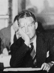 Rt. Hon. W.L. Mackenzie King and colleagues at the Paris Peace Conference, Palais du Luxembourg. (L.-r.:) Norman Robertson, Rt. Hon. W.L. Mackenzie King, Hon. Brooke Claxton, Arnold Heeney.